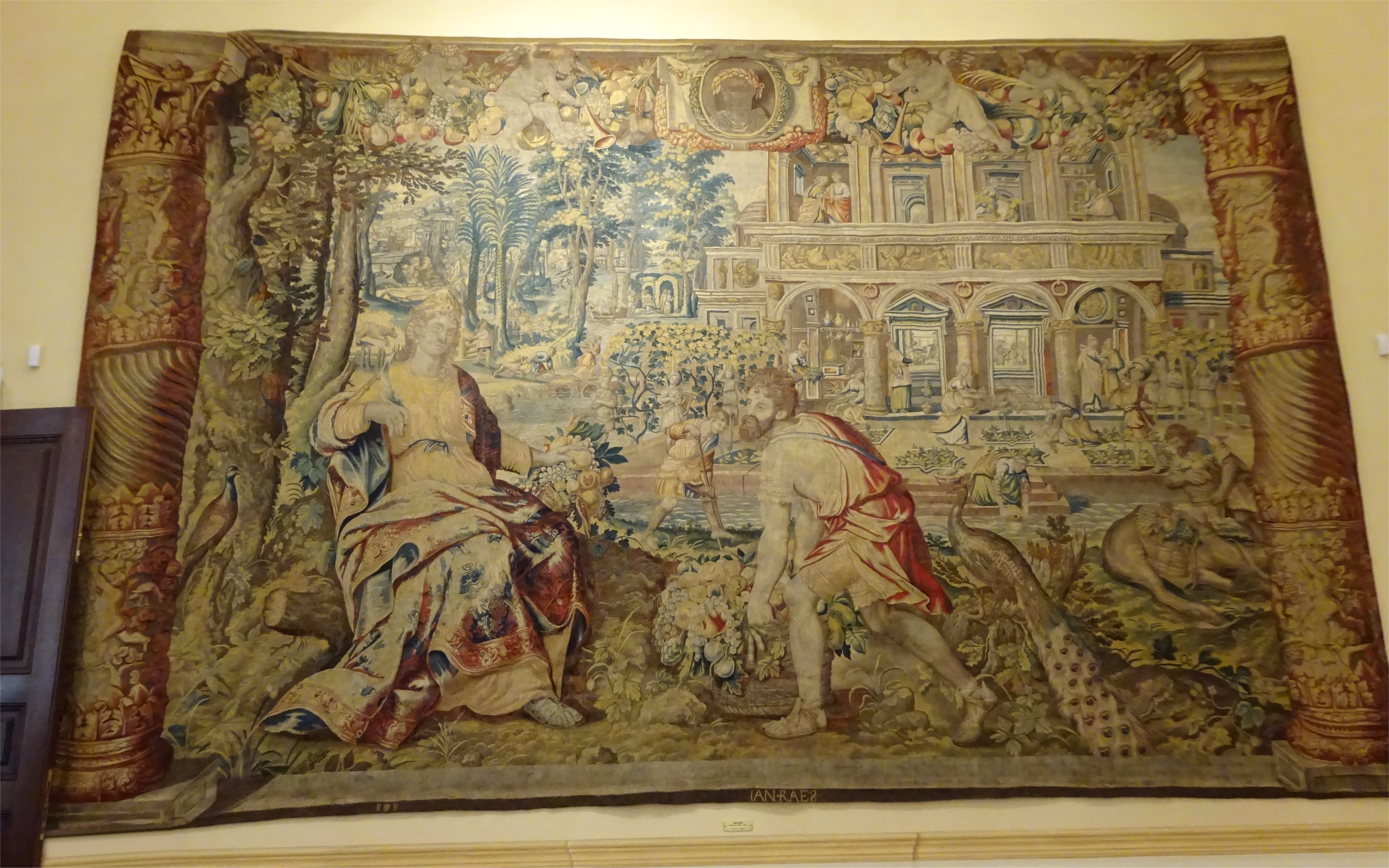 Tapestry by Jan Raes II (first half of the XVII century), photographed in Palazzo Doria Carcassi in Genoa